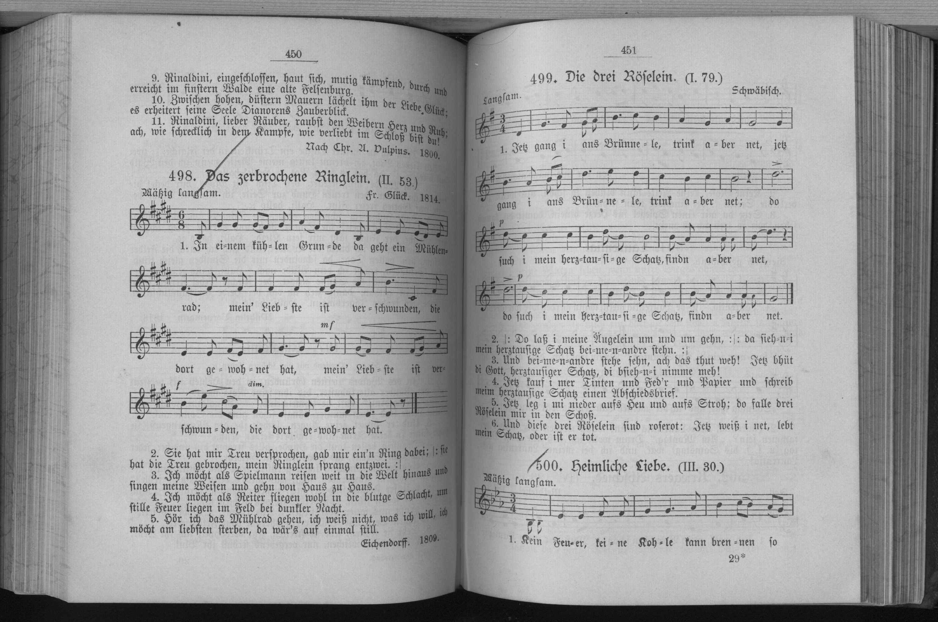 The Allgemeines Deutsches Kommersbuch (ADK) or Lahrer Kommersbuch is the most popular commercium book in Germany.